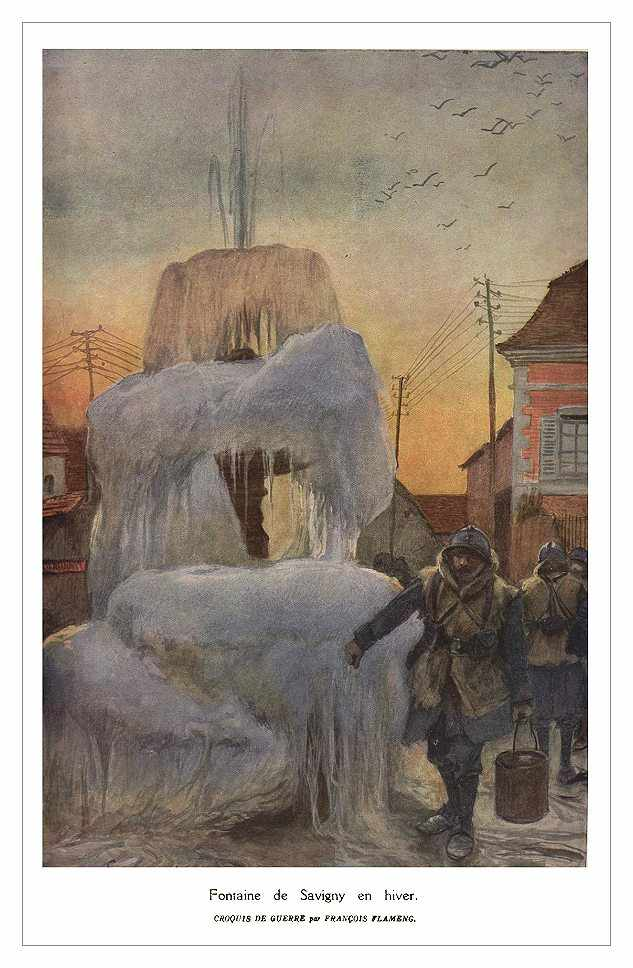 For Revue L'Illustration. read inscription at the illustration